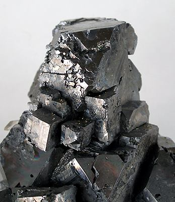 Calcite, Galena Locality: Elmwood mine, Carthage, Central Tennessee Ba-F-Pb-Zn District, Smith County, Tennessee, USA (Locality at ) Size: small cabinet, 6.9 x 6.0 x 4.4 cm Galena and Calcite This is an aesthetic floater cluster of stacked, modified cubes of galena, up to 2.0 cm across. The battleship gray color and very good luster are supplemented by several, gemmy, golden calcite crystals, to .7 cm across, on the back side of the specimen. Complete-all-around.